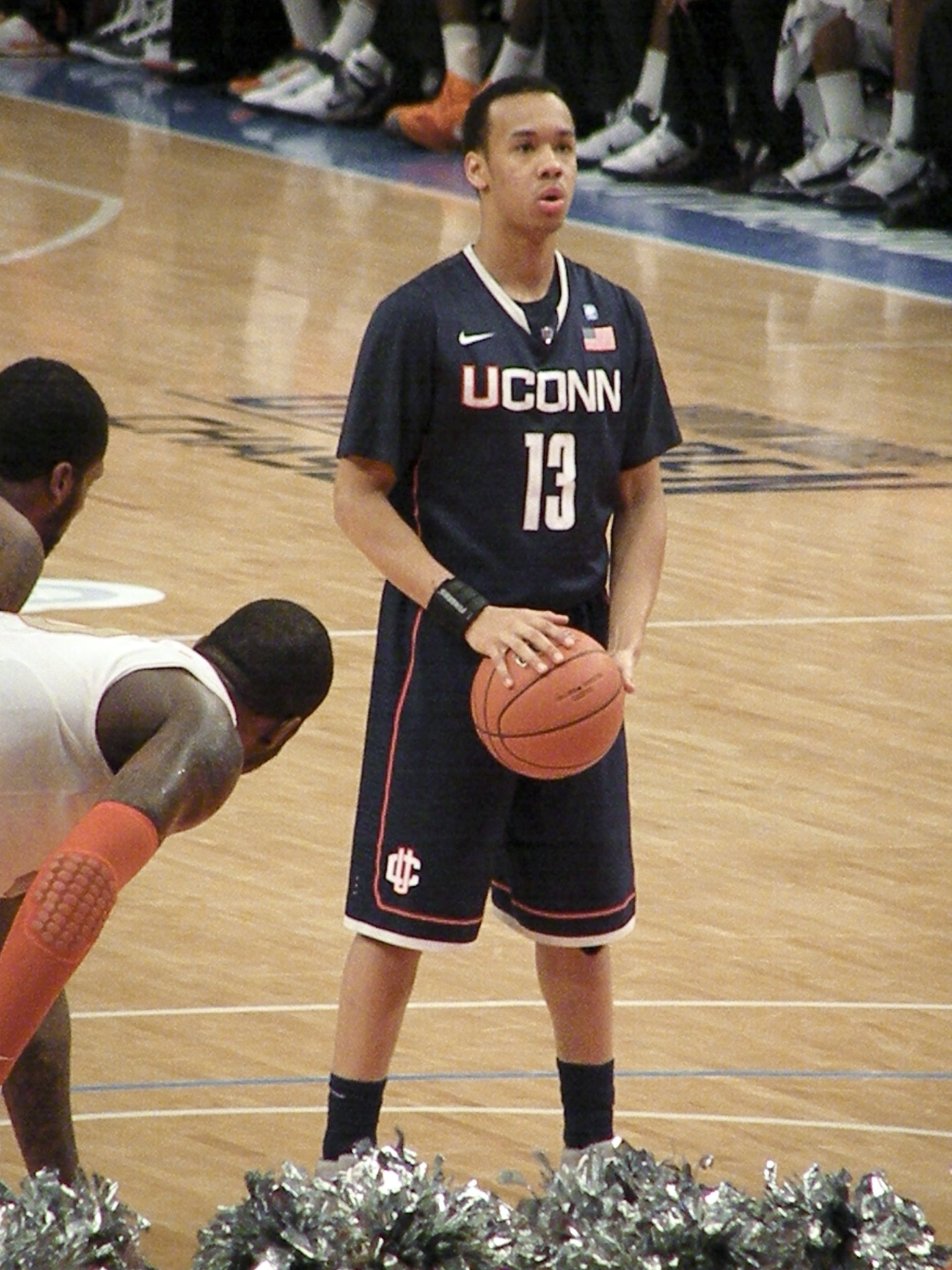 Syracuse Orange vs. Connecticut Huskies 3.11.11; 2011 Big East Tournament Semifinals; Madison Square Garden, New York, NY